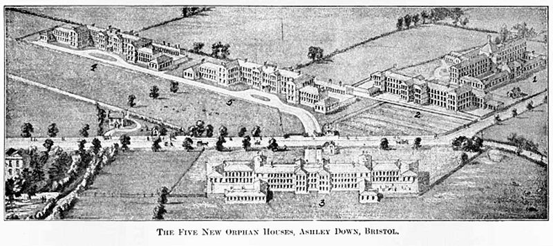 Orphan Houses in England